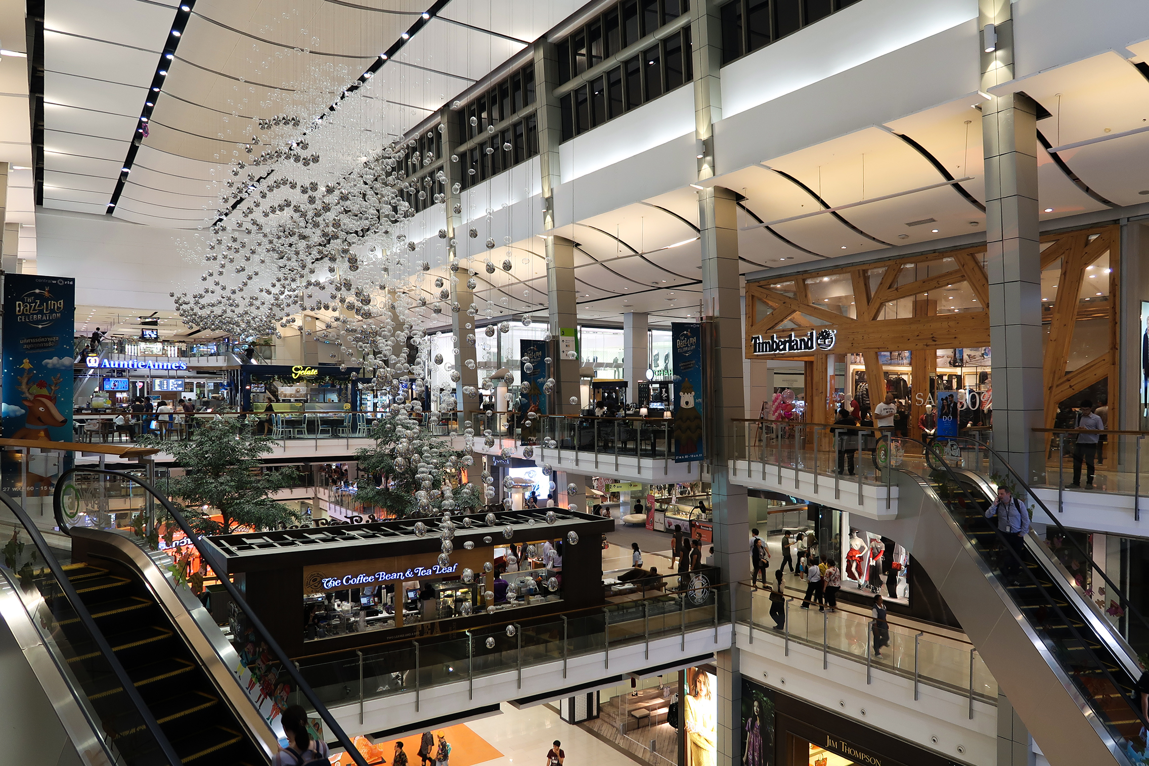 CentralWorld Atrium view